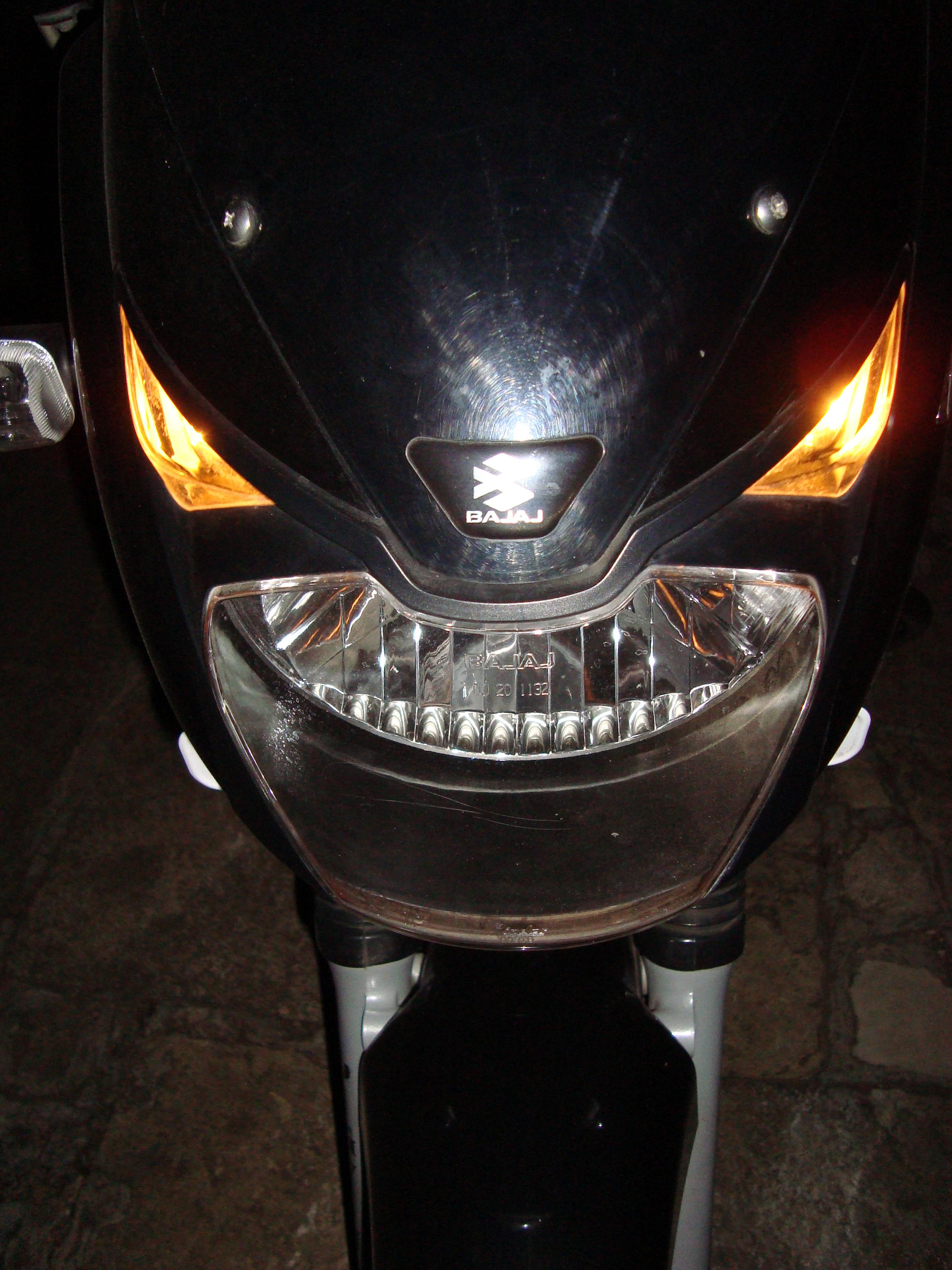 The headlamp design with separated pilot lamps in the Pulsar UG-III. So called FOX eye head lamp